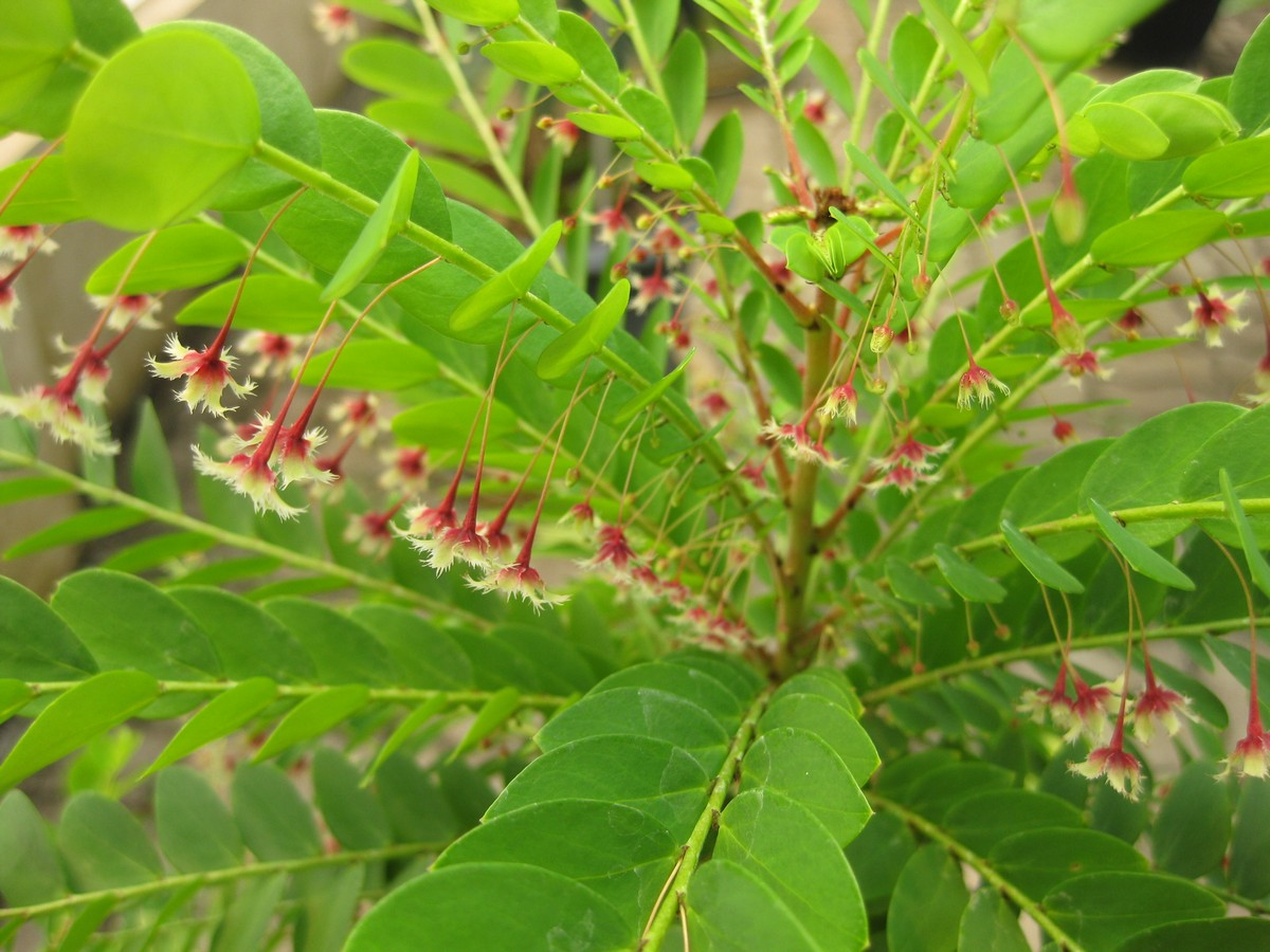 Photographed at the Queen Sirikit Botanic Garden (Chiang Mai Province, Thailand) in March